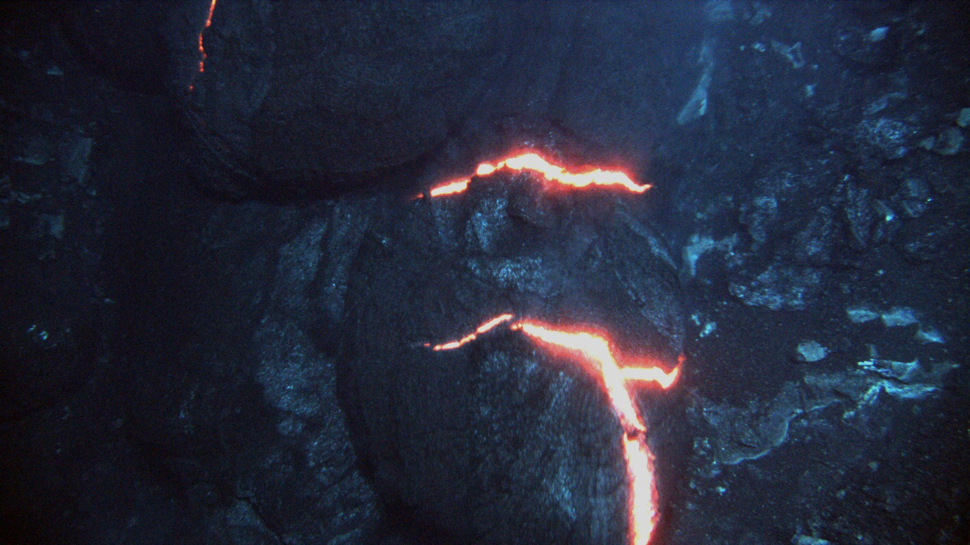 2. The orange glow of superheated magma, about 2,200 degrees Fahrenheit, is exposed as pillow lavas extrude from the eruption. These images are approximately three feet across in an eruptive area approximately the length of a football field that runs along the summit. Pacific Ocean, Northeast Lau Basin, Fiji area.